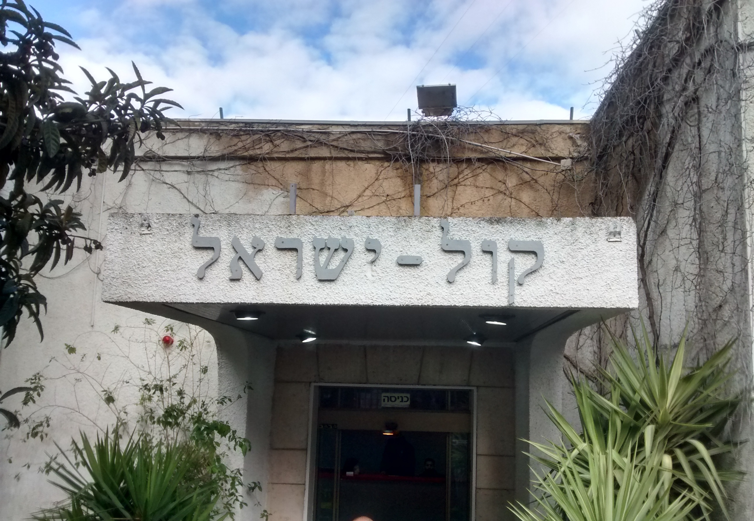 Studios and facilities of Kol Israel in Romema, Jerusalem 2016